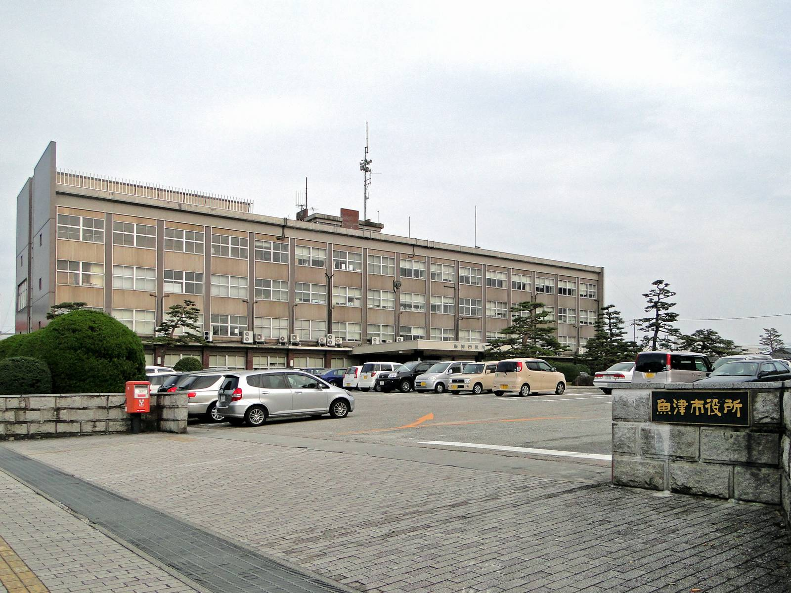 Uozu City Hall